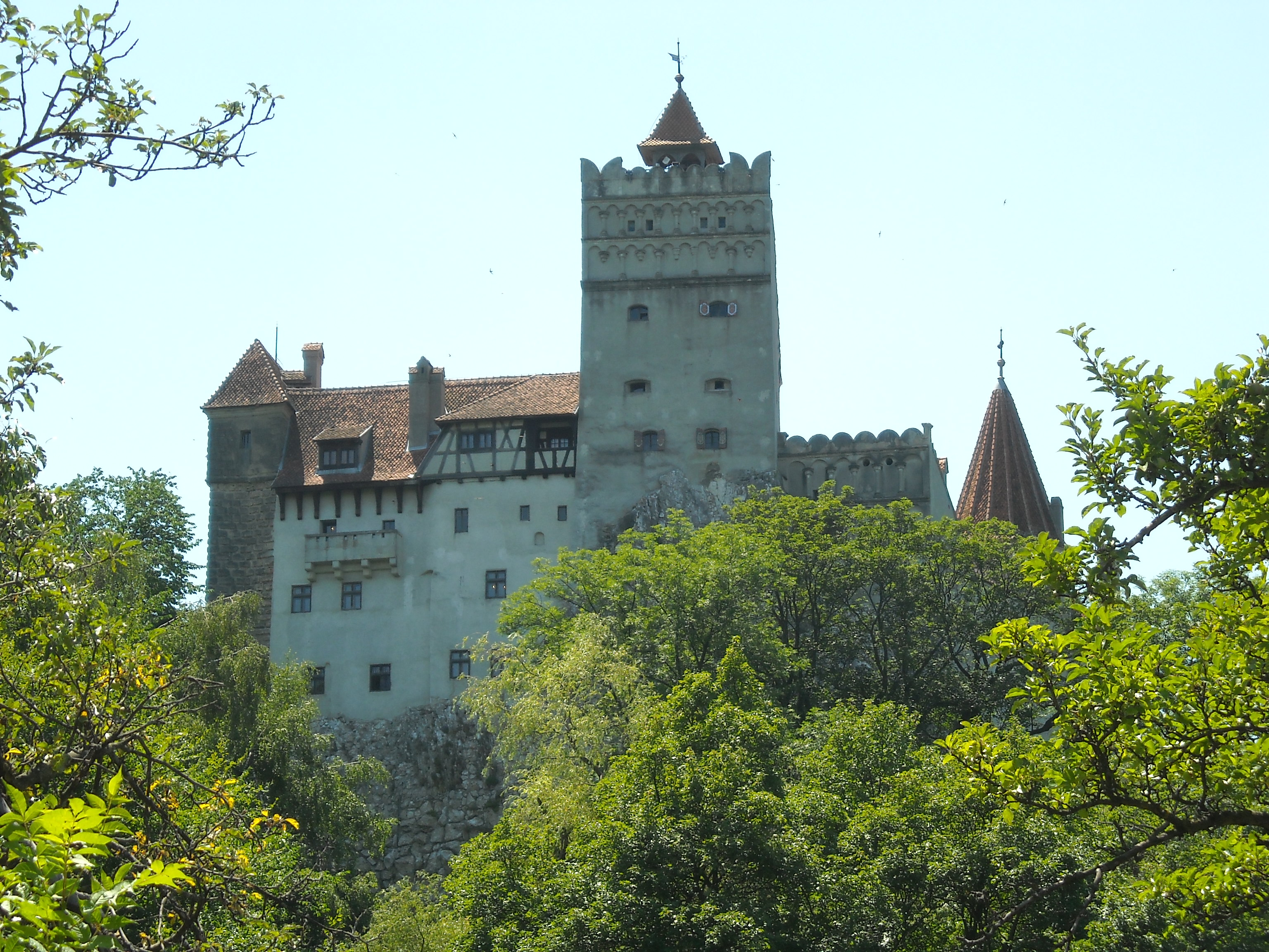 Bran Castle